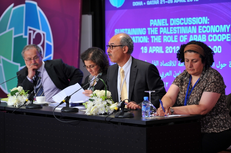 Mr. Hazem Shunar, Assistant Deputy Minister of National Economy, Ms. Nada Al-Nashif, Assistant Director-General, International Labour Office, Mr. Mahmoud Elkhafif, Coordinator, Assistance to the Palestinian People Unit, UNCTAD and Ms. Samia Al-Botmeh, Director of the Center for Development Studies, Birzeit University